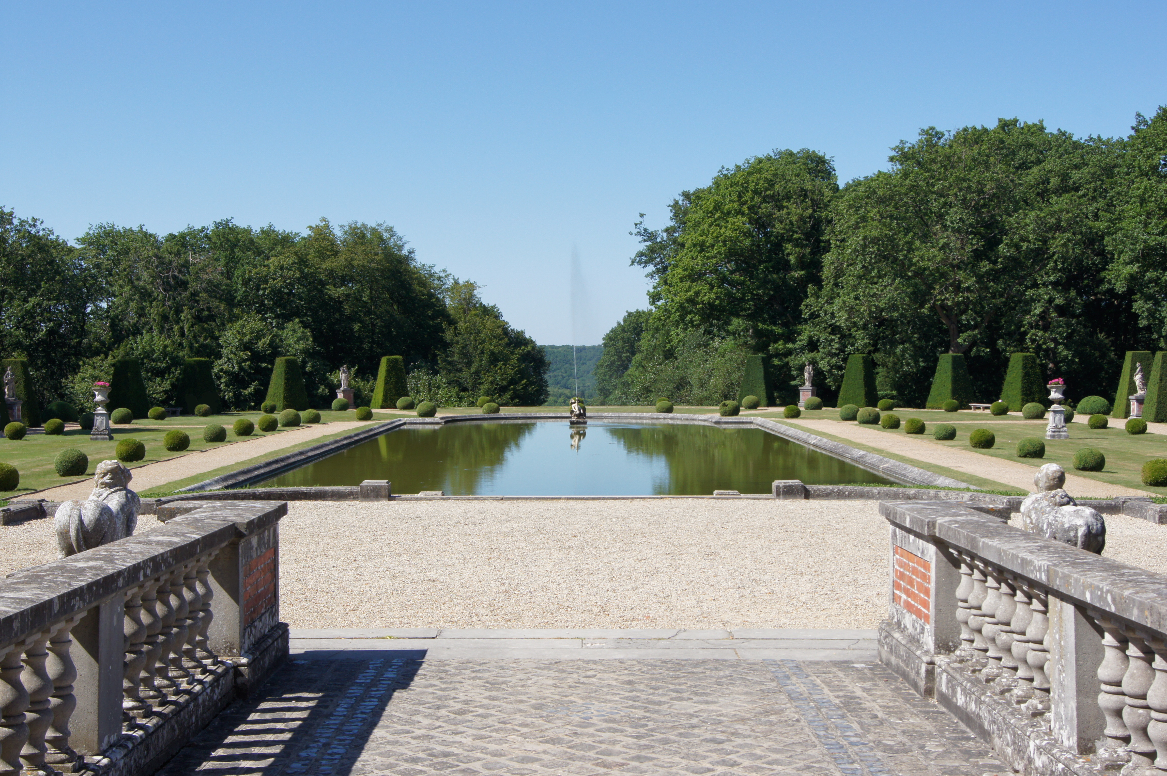 The ornamental pool of Chateau de Breteuil, France